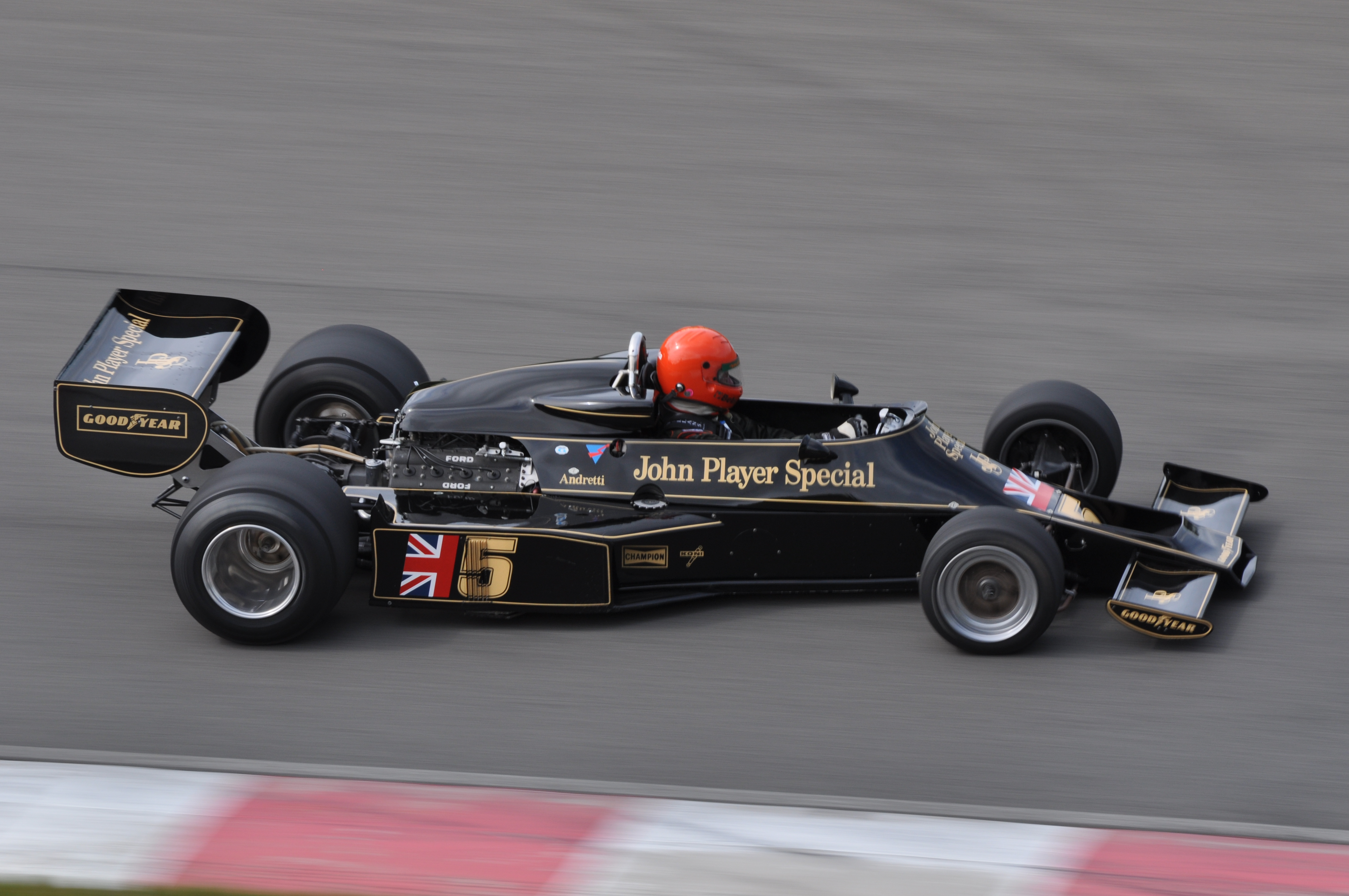 James King at speed in his ex-Mario Andretti Lotus 77 Formula One racing car, at Circuit Mont-Tremblant during the 2010 Legends of Motorsport meeting.